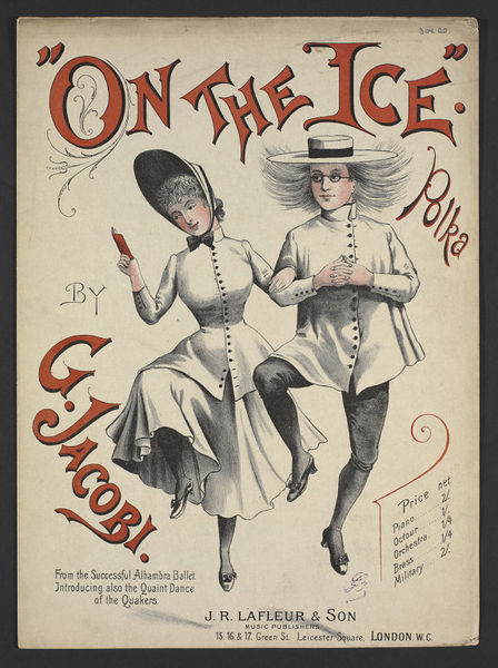 Sheetmusic cover for the polka On the Ice by Georges Jacobi (1840-1906)